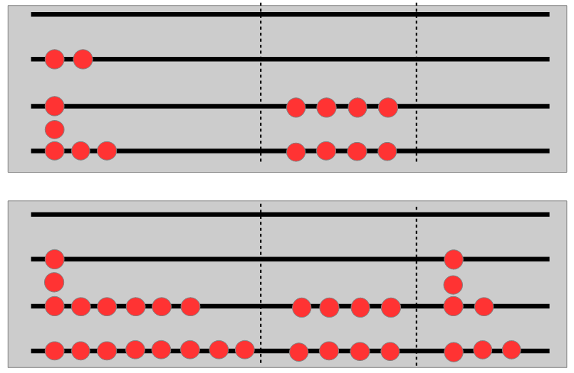 The subtraction 218 - 44 = 174 on a counting table